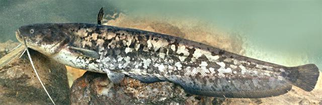 Silurus glanis photographed in Tiszafüred, Tisza river, Hungary.